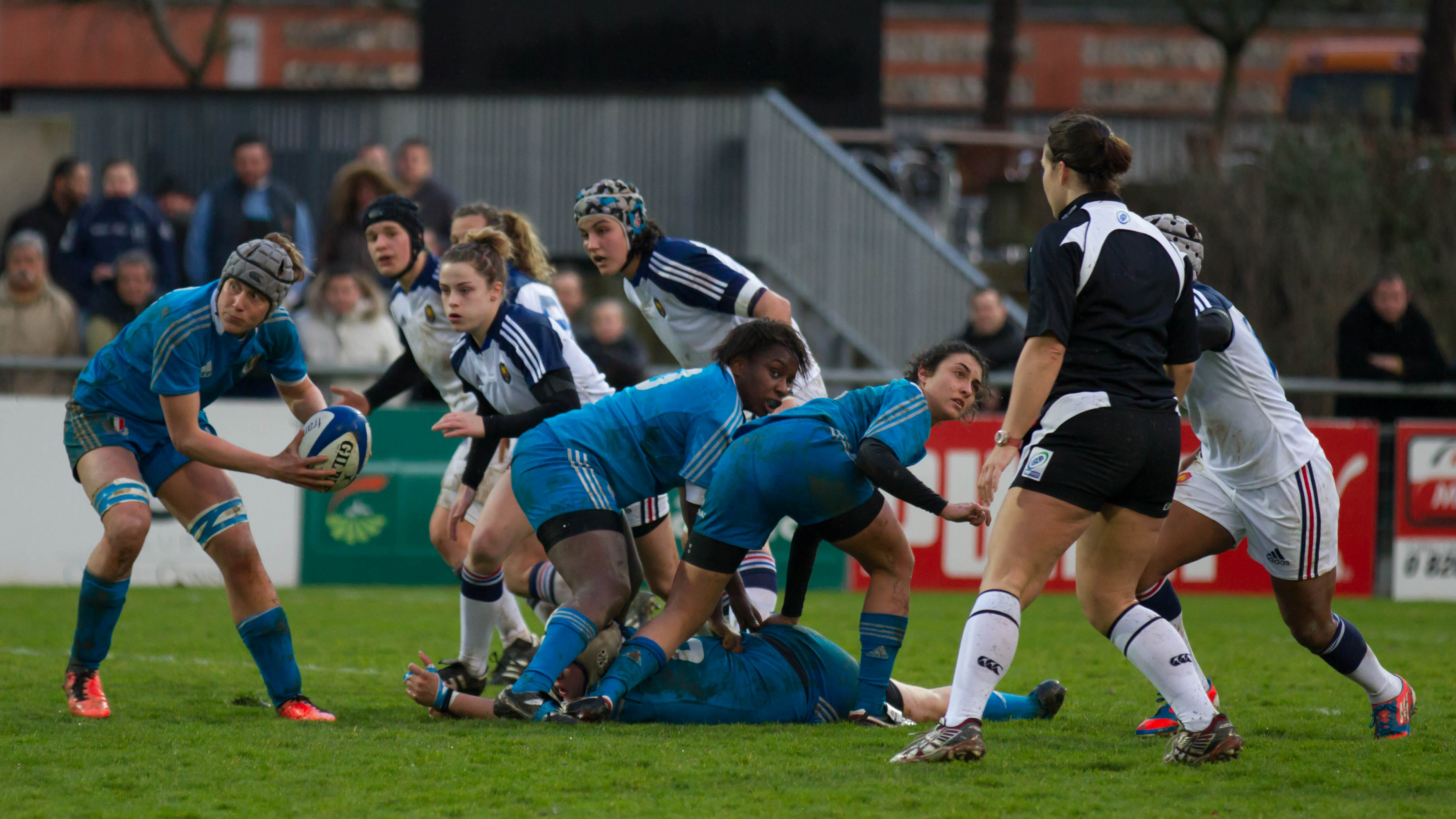 2014 Women's Six Nations Championship — 9 February 2014, Stade Ernest Argeles. Match between: France women's national rugby union team — Italy women's national rugby union team